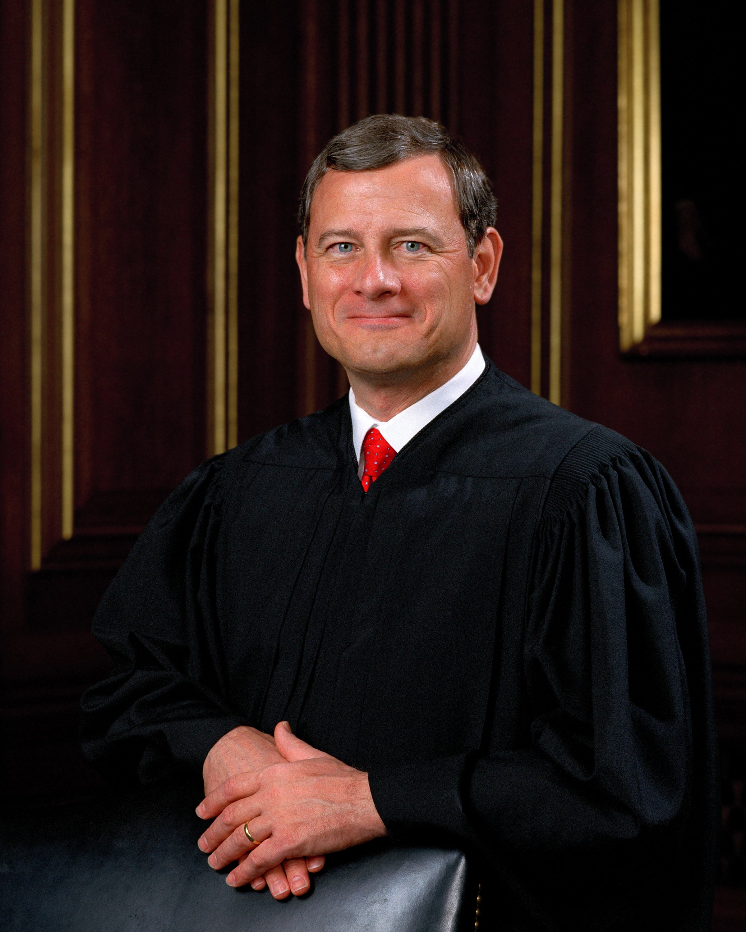 John G. Roberts, Jr., Chief Justice of the United States of America